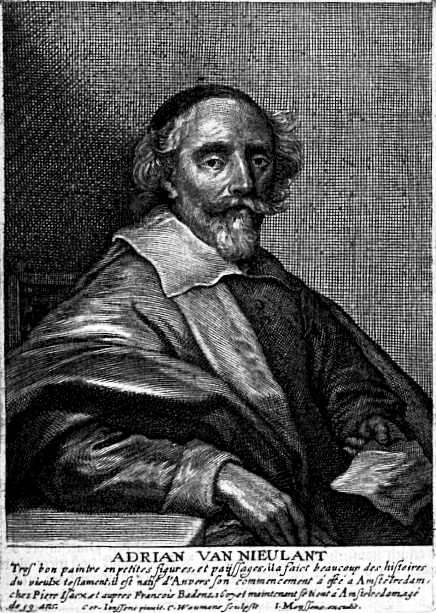 Portrait of Adriaen van Nieulandt in Cornelis de Bie's Gulden Cabinet.